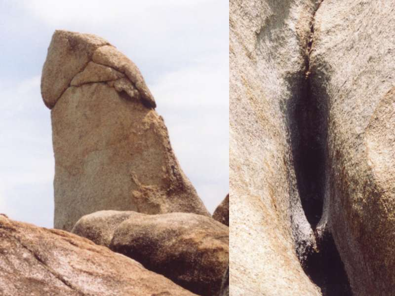 Hin Ta and Hin Yai - Grandfather Stone and Grandmother Stone. Two rocks which look like genitals, located just few meters away from each other. A popular tourist attraction of Ko Samui, Thailand. Photos taken by User:Ahoerstemeier on July 3 2003.